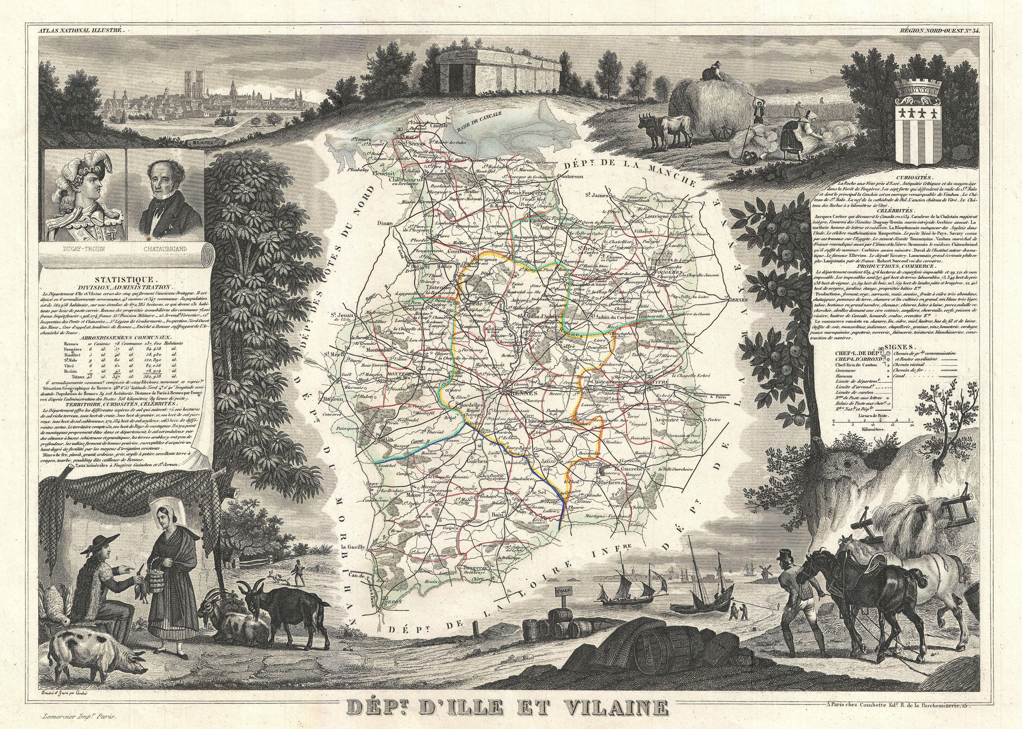 This is a fascinating 1852 map of the French department of Ille et Vilaine. France. Its coastal area is famous for its seafood, and especially its oysters. The region is also known for its remarkable megalithic prehistoric ruins. The whole is surrounded by elaborate decorative engravings designed to illustrate both the natural beauty and trade richness of the land. There is a short textual history of the regions depicted on both the left and right sides of the map. Published by V. Levasseur in the 1852 edition of his Atlas National de la France Illustrée. Text in french: STATISTIQUE. DIVISION, ADMINISTRATION Le département d’Ille-et-Vilaine est un des cinq qui forment l’ancienne Bretagne. Il est divisé en 6 arrondissements communaux, 43 cantons et 347 communes. Sa population est de 562,958 habitants, sur une étendue de 672,385 hactares, ce qui donne 131 habi- tants par lieue de poste carrée. Revenu des propriétés immobilières des communes 73,005 francs. Impôt foncier 1,926,074 francs. 15e division militaire. 25 Arrondt Forestier. 12e Inspection des Ponts et Chaussés. 5e Légion de Gendarmerie. Inspection Nord-Ouest des Mines. Cour d’appel et Académie de Rennes. Evêché à Rennes suffragant à l'Ar- chevéché de Tours